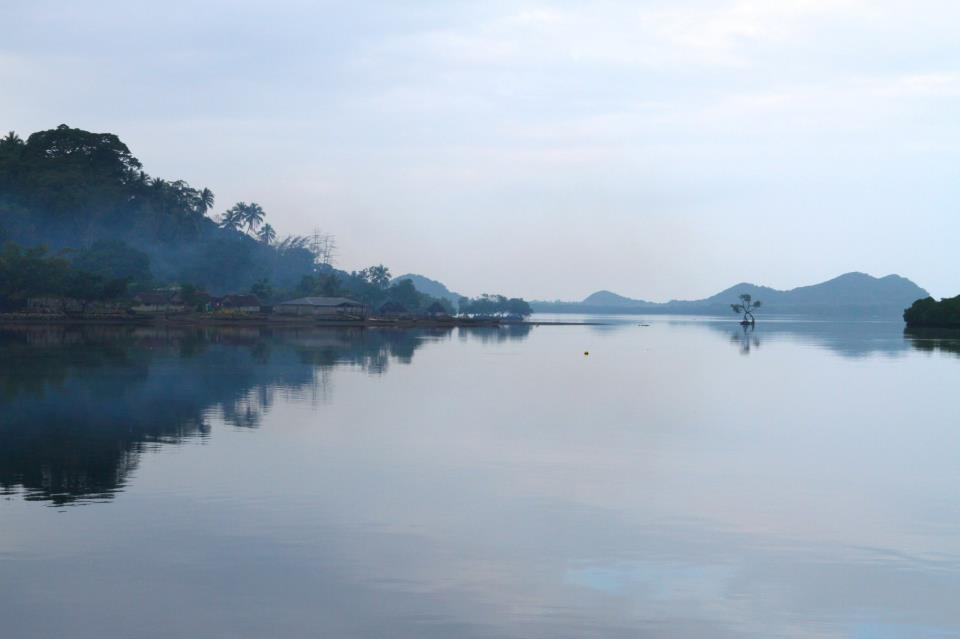 Maskelynes in 2012